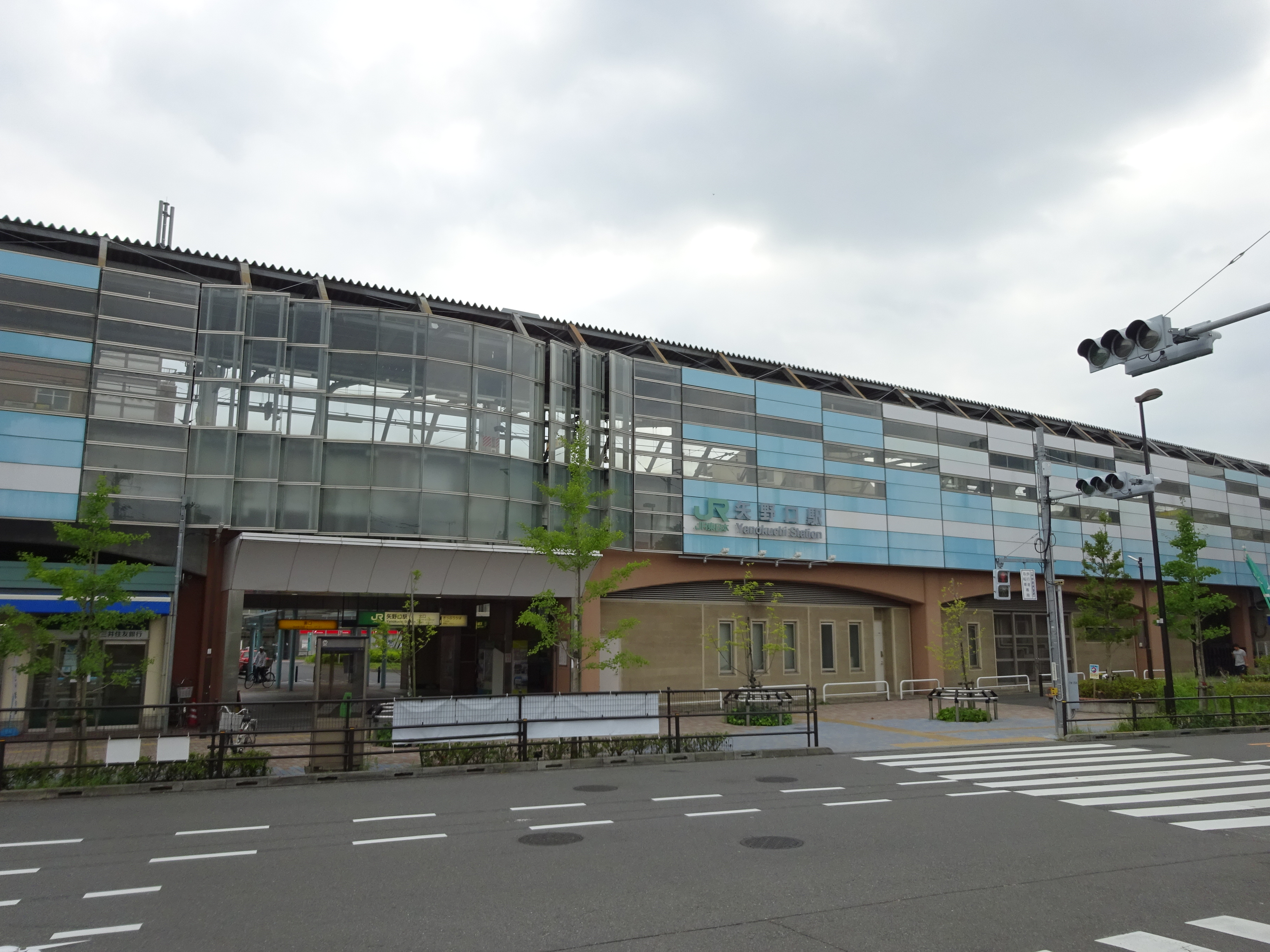 North Entrance of Yanokuchi Station